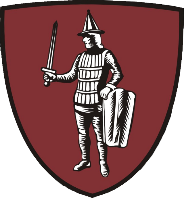 Insignia of the Grand Duke Kęstutis Mechanized Infantry Battalion